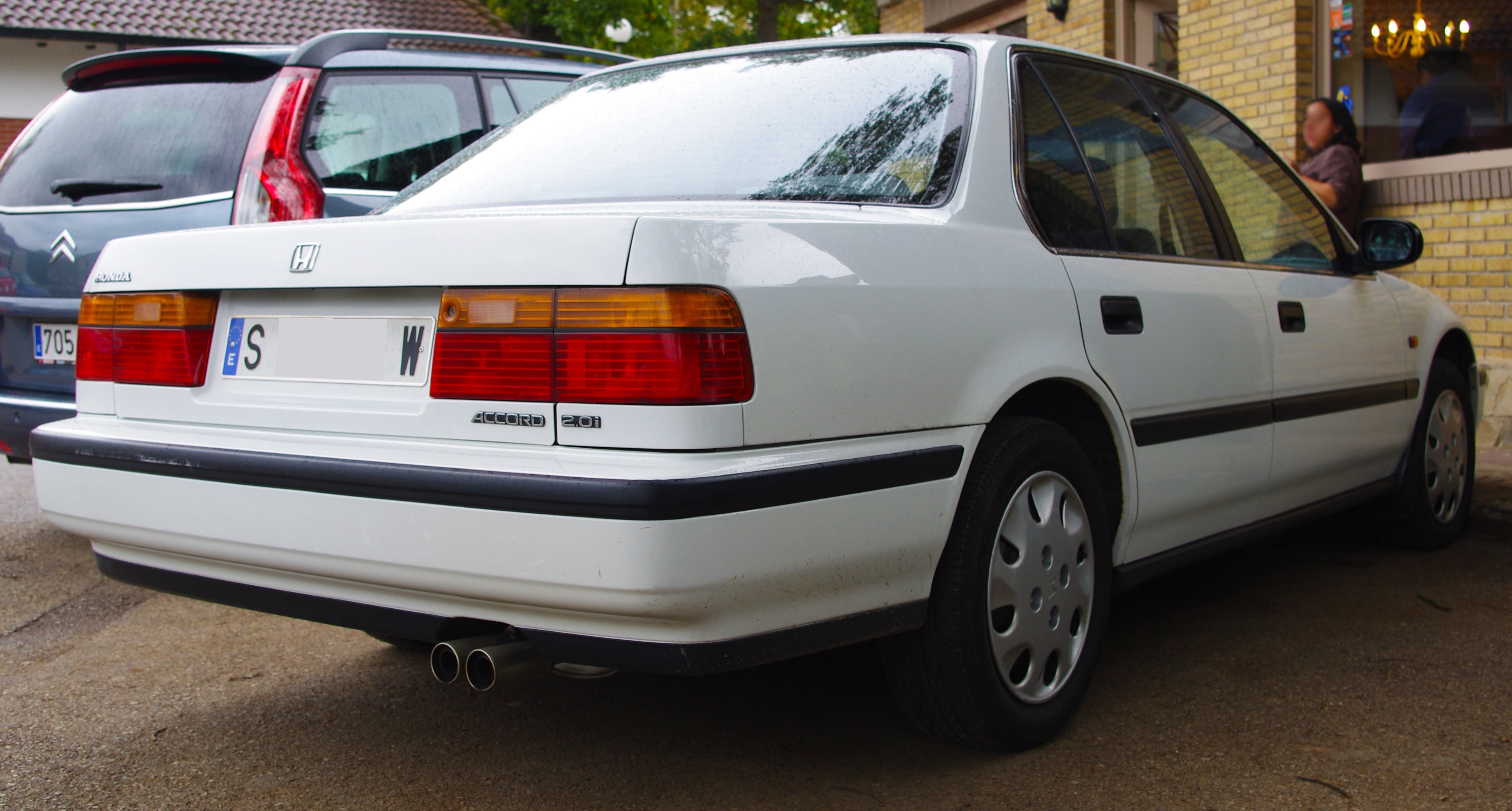 This Accord again. So nice, I've seen it several times around Santander but never outside of it. I want it so madly! how can it be so well cared for! 1990 plates from Santander (Cantabria).